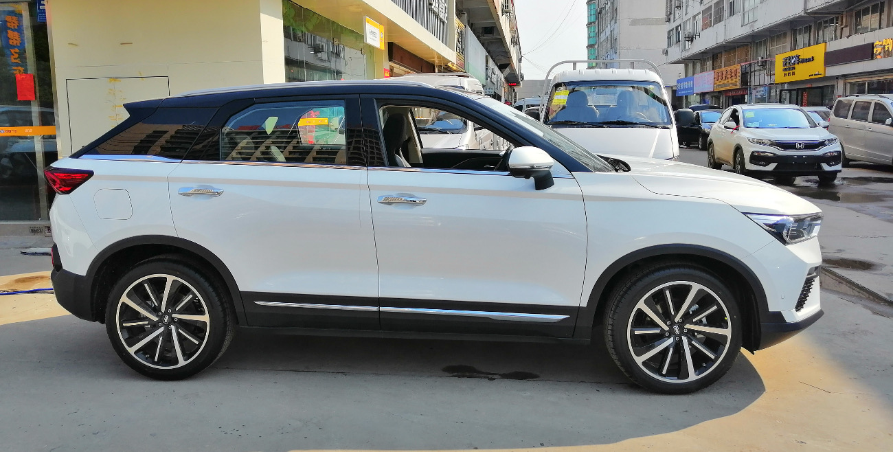 Bestune T77 photographed in Hefei, Anhui province, China.